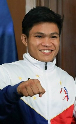 President Rodrigo Roa Duterte flashes his signature pose with (from left) boxing coach Joven Jimenez, International Boxing Federation (IBF) junior bantamweight champion Jerwin Ancajas, and World Boxing Organization (WBO) international minimum weight champion Mark Anthony Barriga who paid a courtesy call on the President in Malacañan Palace on December 5, 2017. REY BANIQUET/PRESIDENTIAL PHOTO